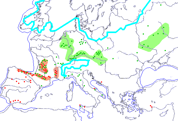 Paleolithic Art in Europe Thin dark blue line: coastline Thick light blue (cyan) line: limits of the main glaciations Red tones: mural art Green tones: portable art